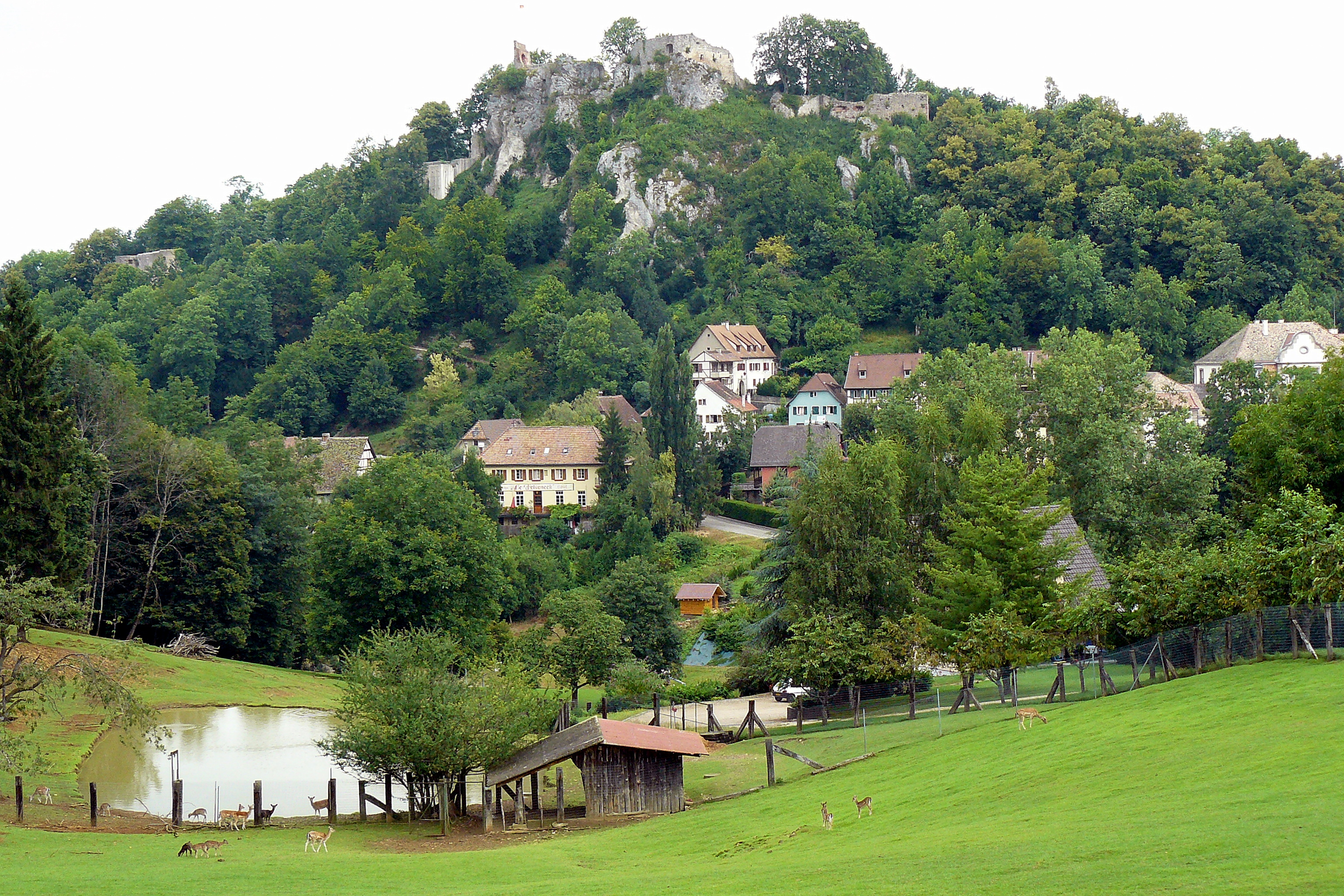 Ferrette (Haut-Rhin, France), with the ruins of the castle